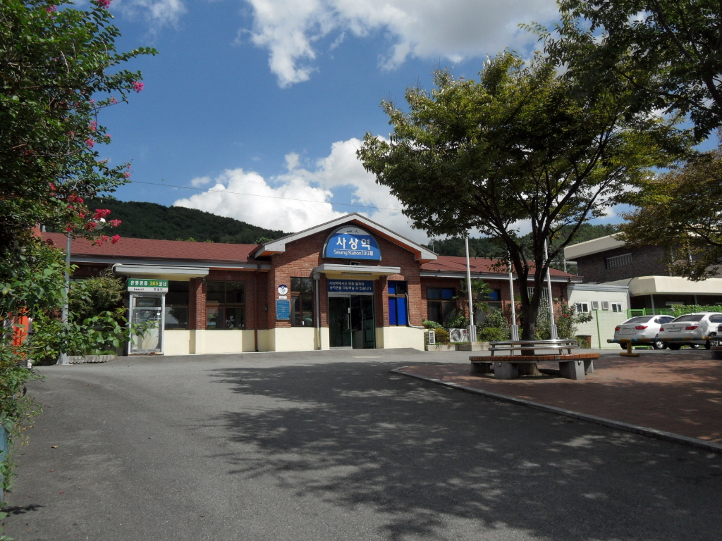 Korail Sasang Station